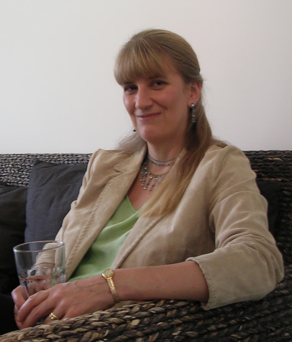 Depicted person: Carenza Lewis – British archaeologist